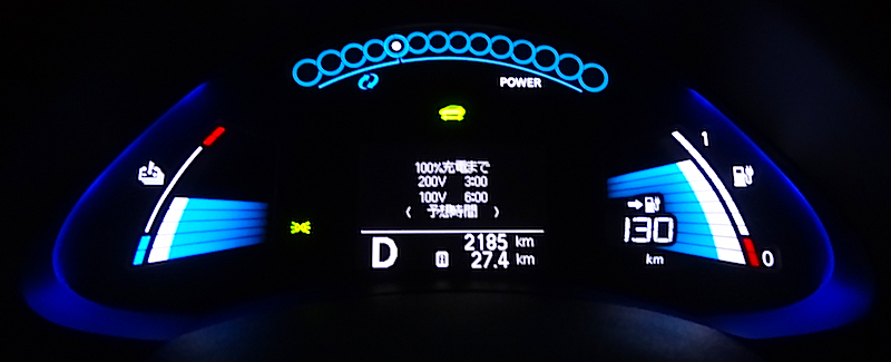 Dashboard digital display of the Japanese version of the Nissan Leaf